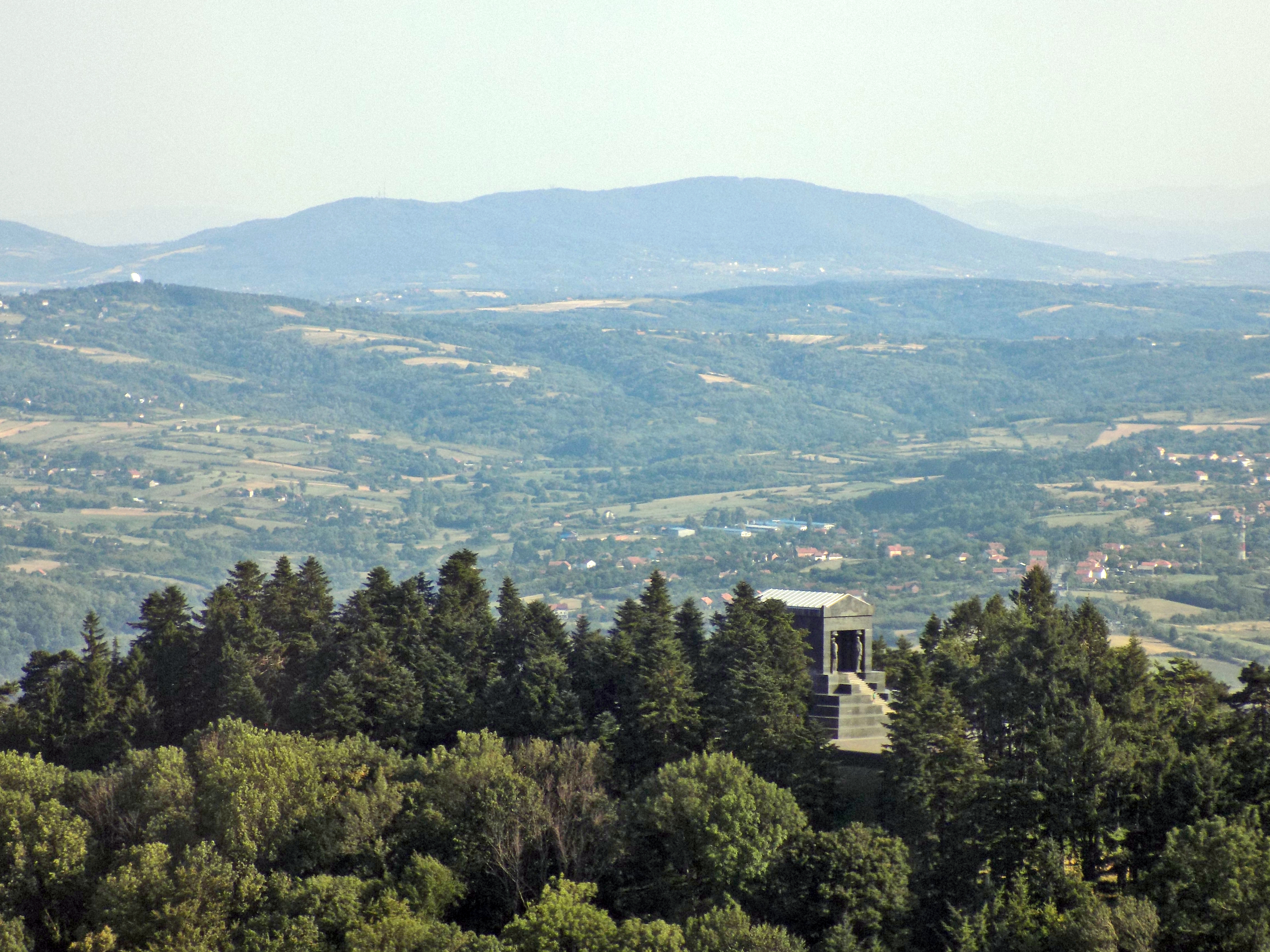 Monument to the Unknown Hero (Mount Avala, Serbia), view from Avala Tower